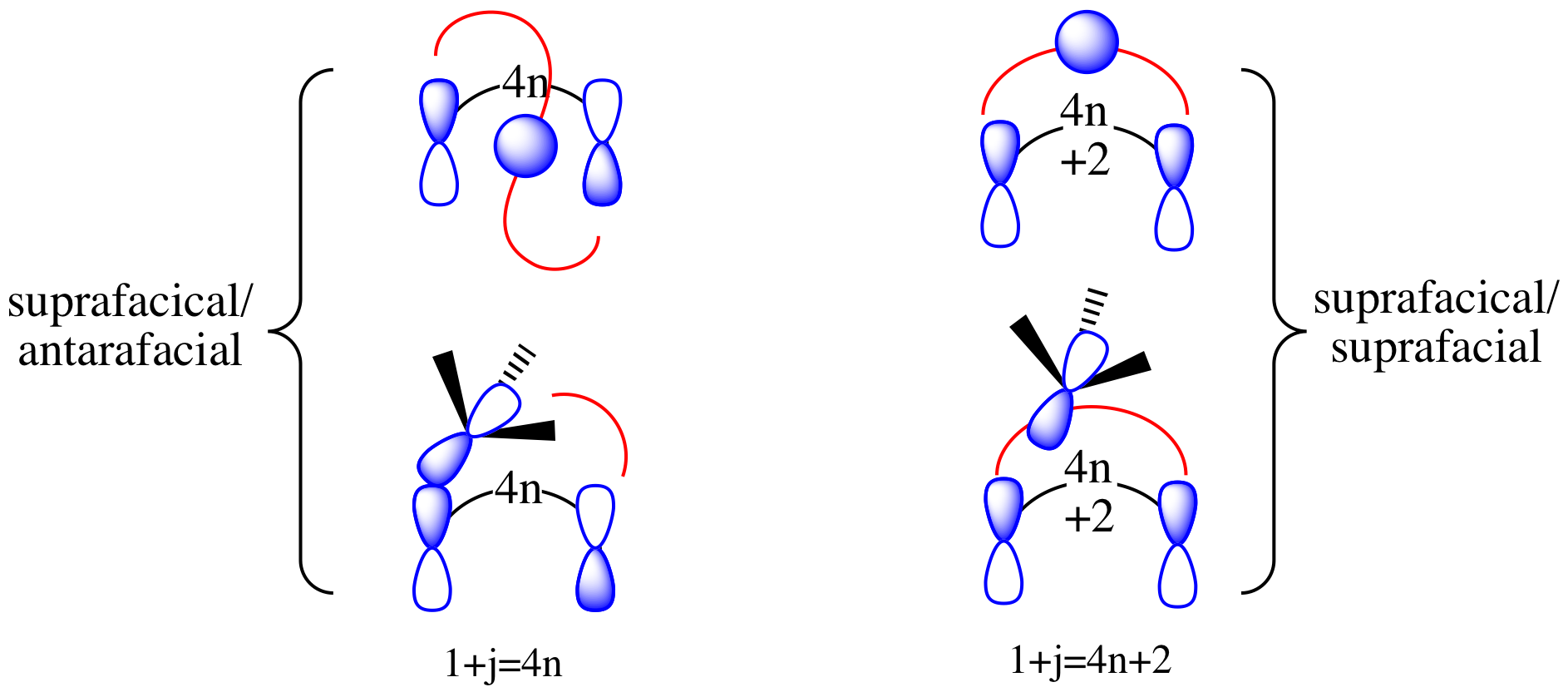 [1,j] sigmatropic rearrangement selection rules.